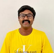 This photo was taken during his HeartQuake Book Release, specifically to use in Media Posters.